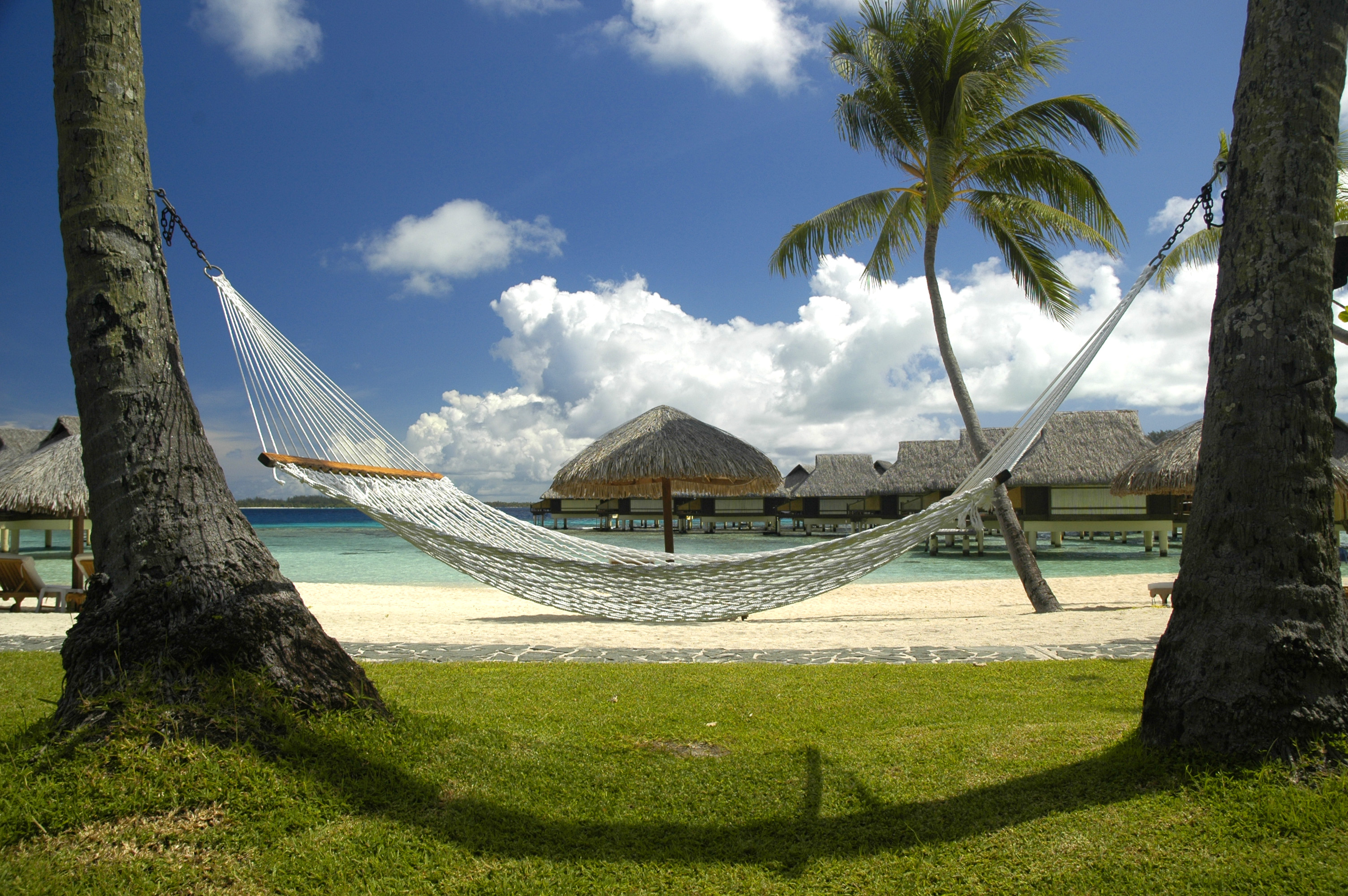 Hammock - Polynesia.